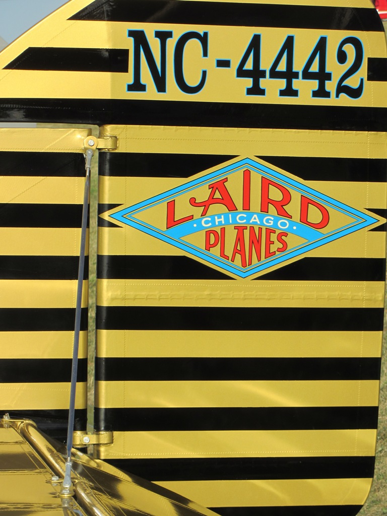 Laird Aircraft